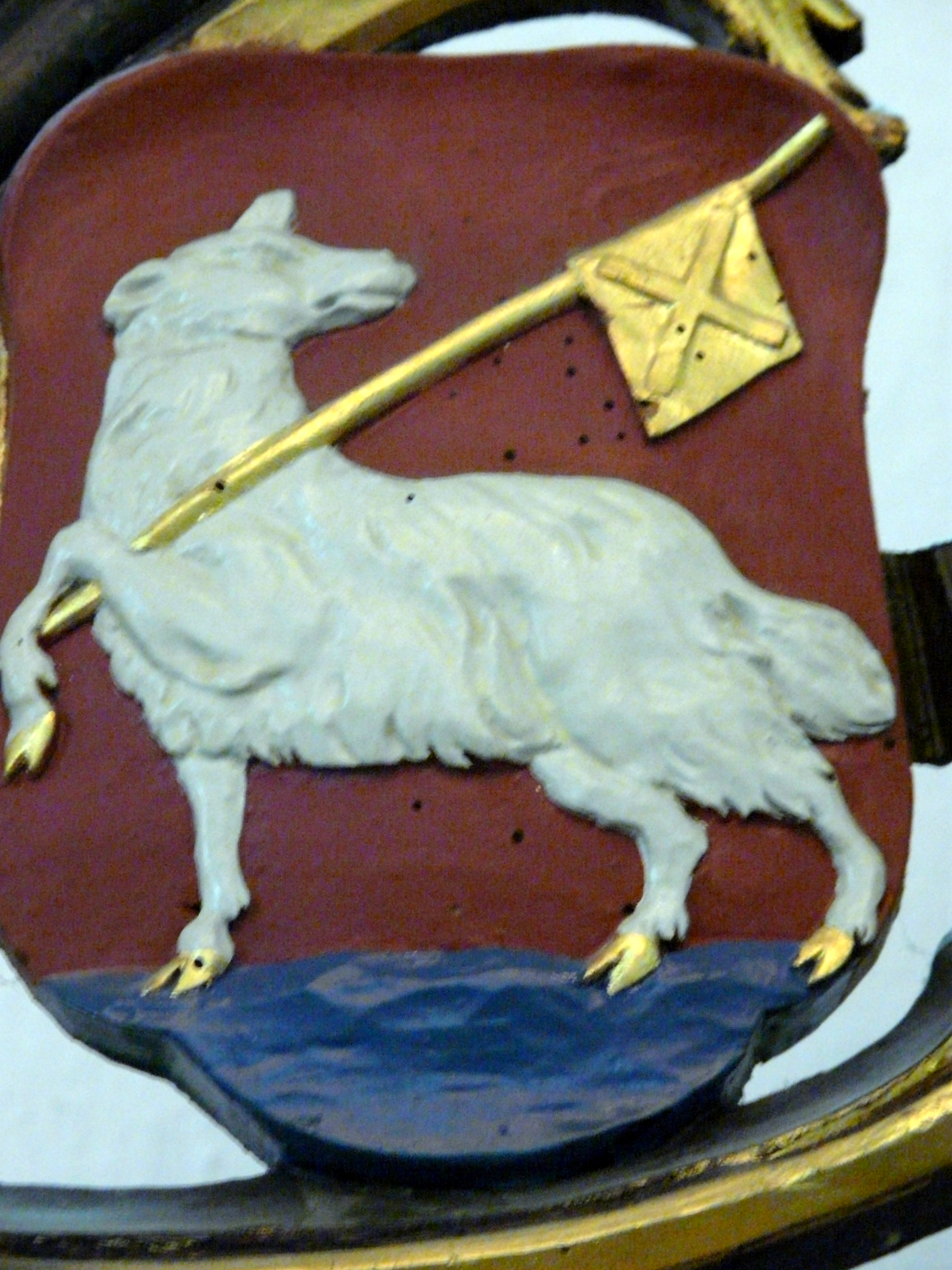 Coats of arms of the former chapter of St.John Baptist in Utrecht (NL)